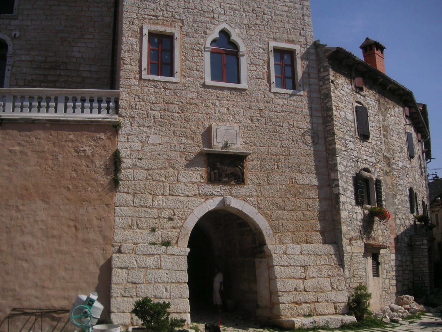 Gate to city centre